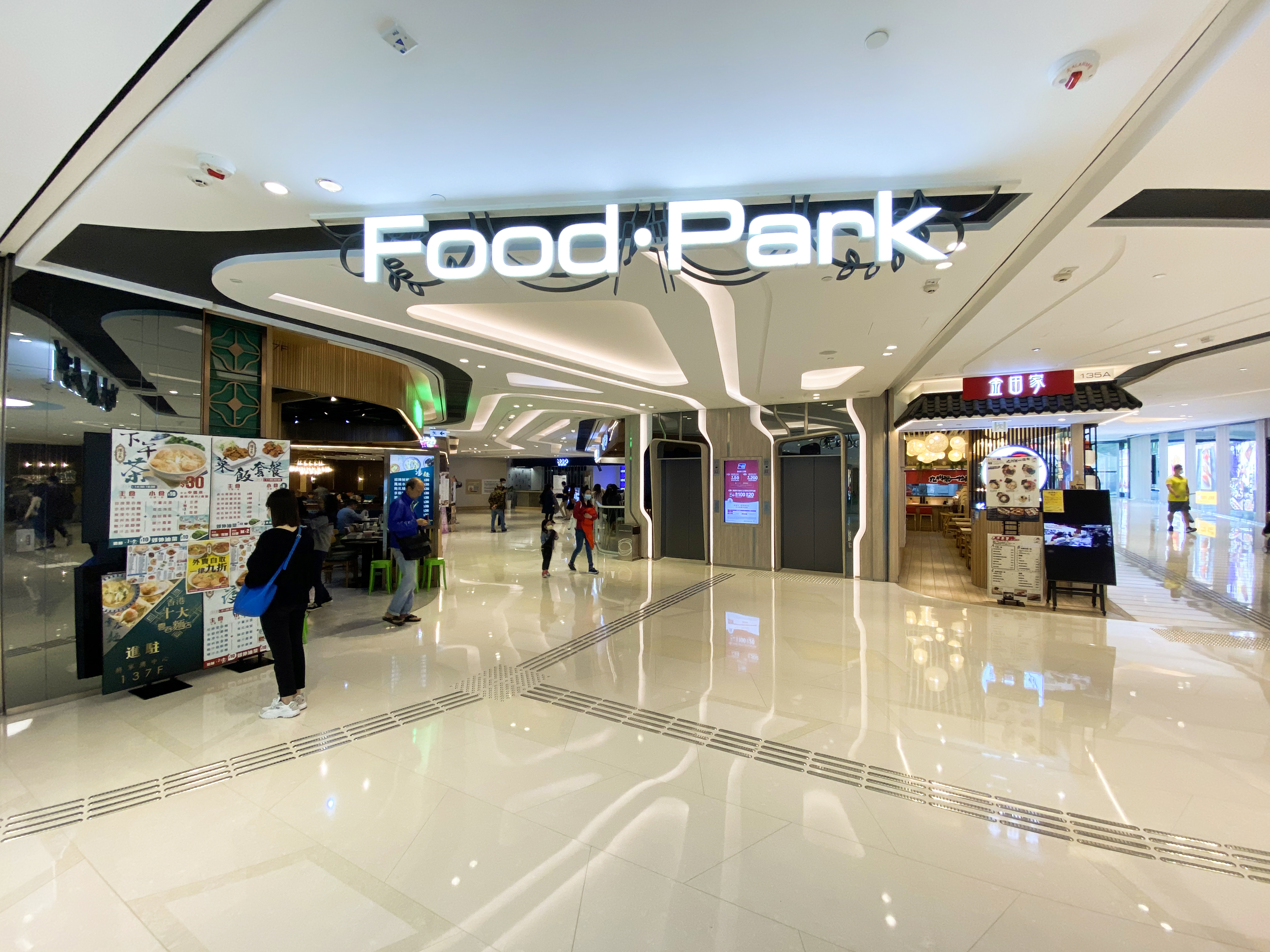 Park Central Level 1 Food Park